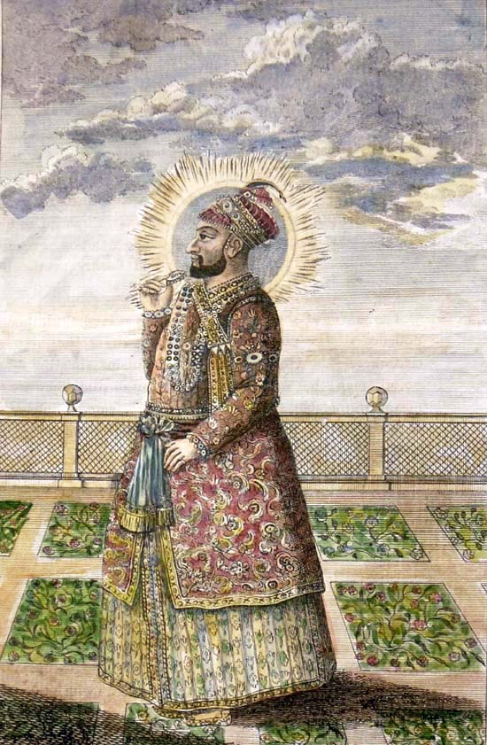 "Hyder Ali," a steel engraving from the 1790's (with modern hand coloring)